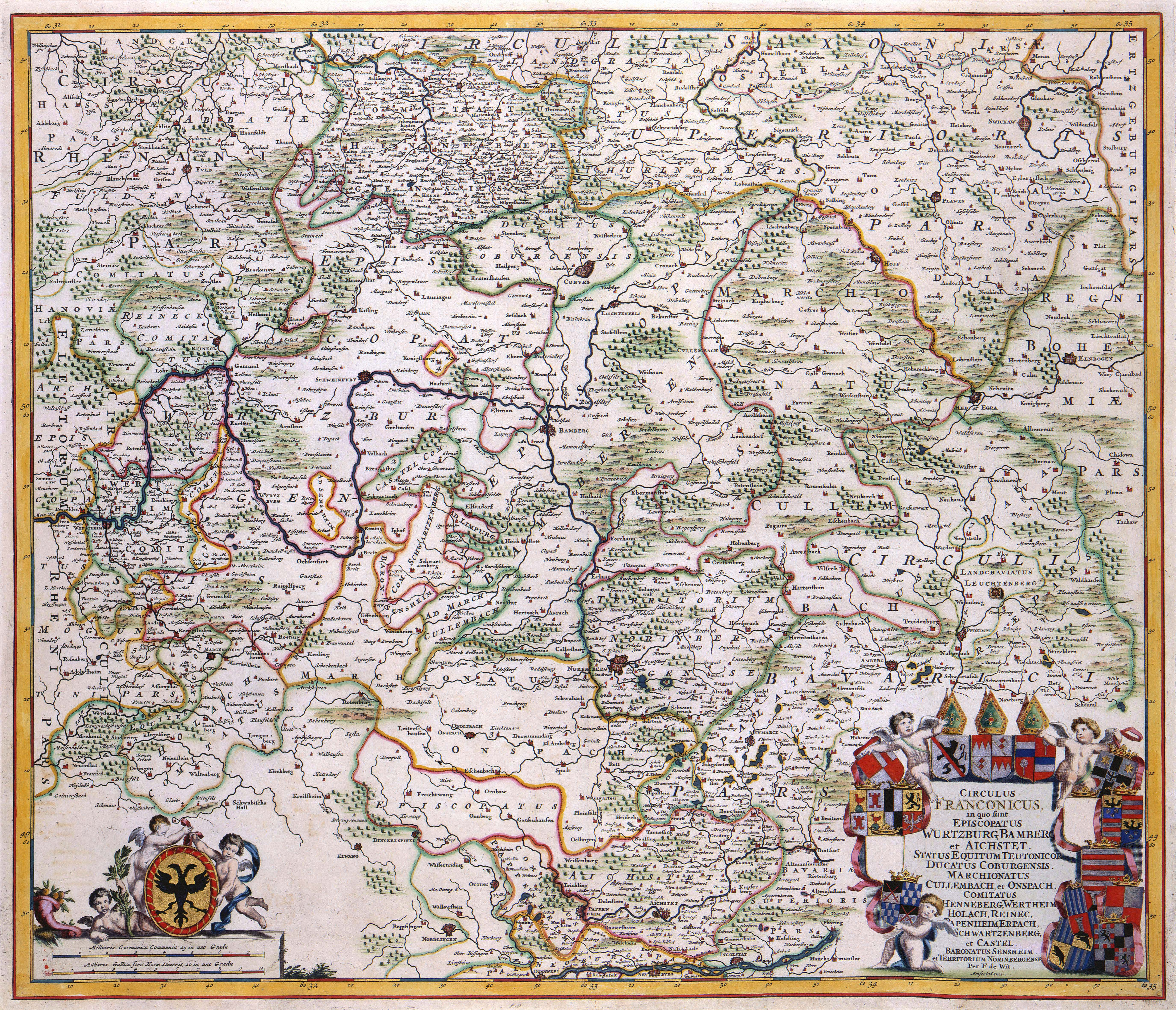 This map of Frankenland was published by Frederik de Wit (1630-1706). The only map available about this area was the map by Sebastian von Rotenhan (1478-1532) published in 1533 by Petrus Apianus (1495-1552). All atlas maps about this area which appeared in the 16th and 17th century were adaptations of this early 16th-century image.